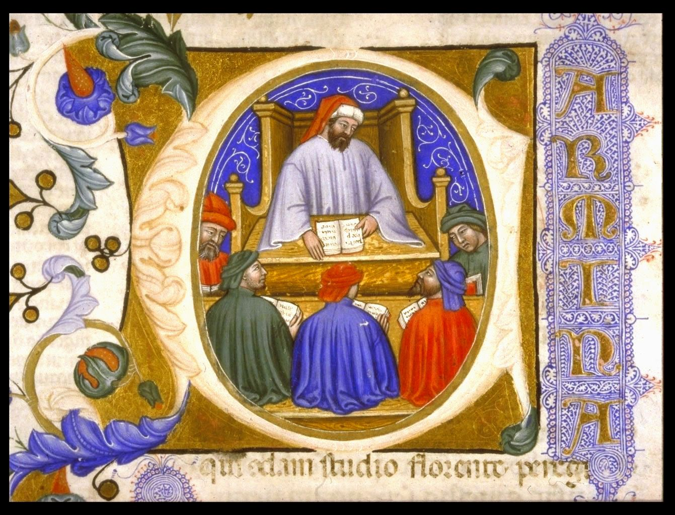 Initial depicting Boethius teaching his students from folio 4r of a manuscript of the Consolation of Philosophy (Italy?, 1385)